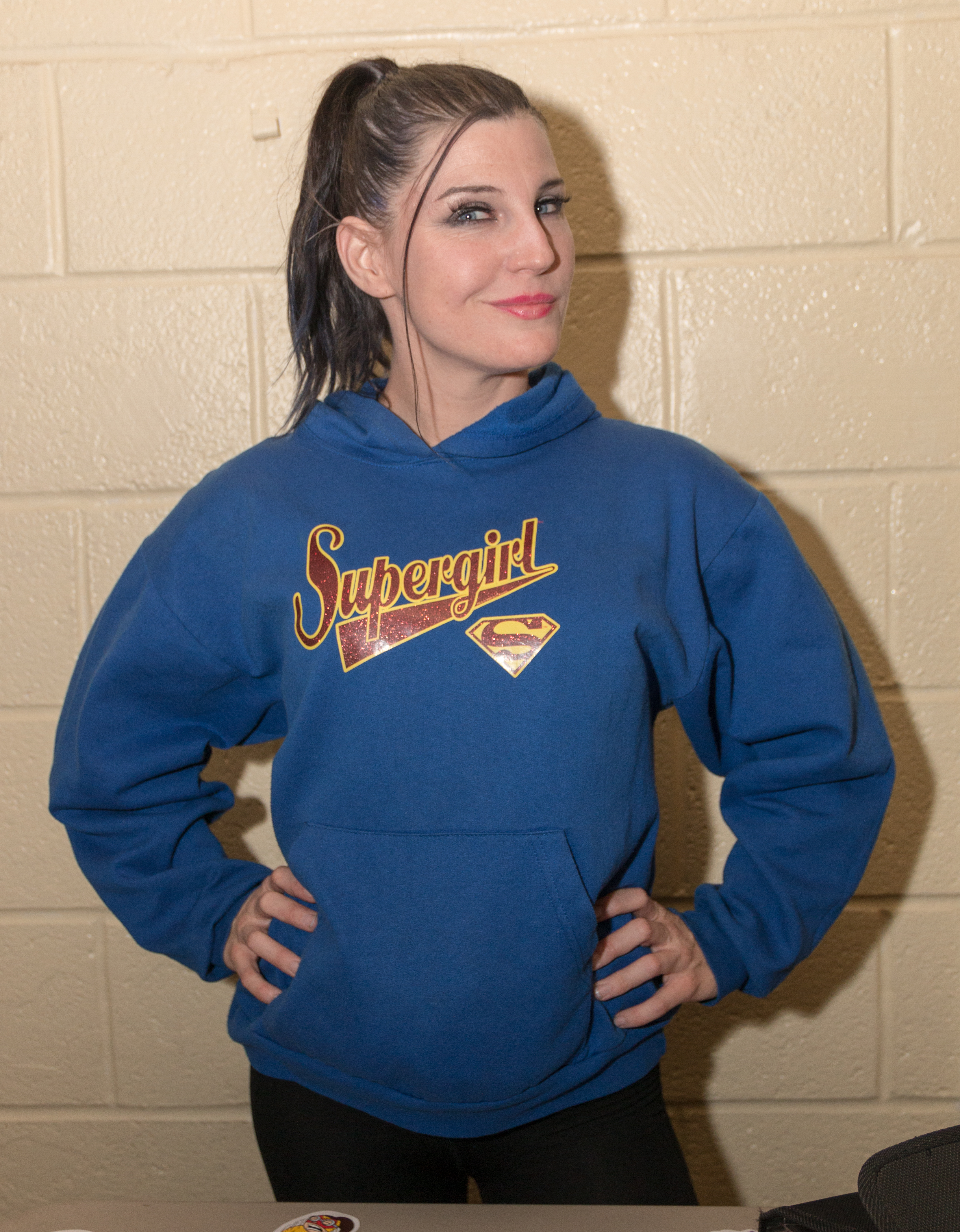 Leva Bates posing at intermission at Smash Wrestling's CANUSA 2016 show in Mississauga, ON